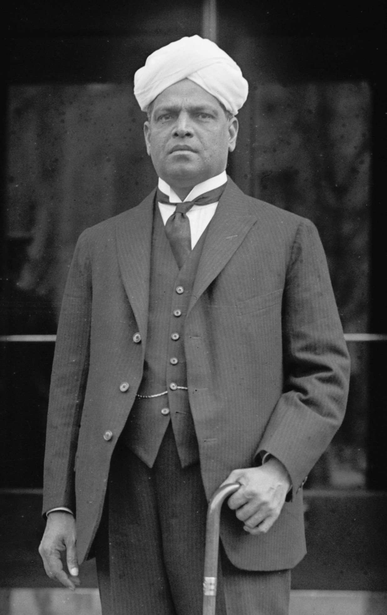 Title: S.S. Bajpai, RT Hon. Srinivasa Sastri, 11/8/21 Abstract/medium: National Photo Company Collection (Library of Congress) Physical description: 1 negative